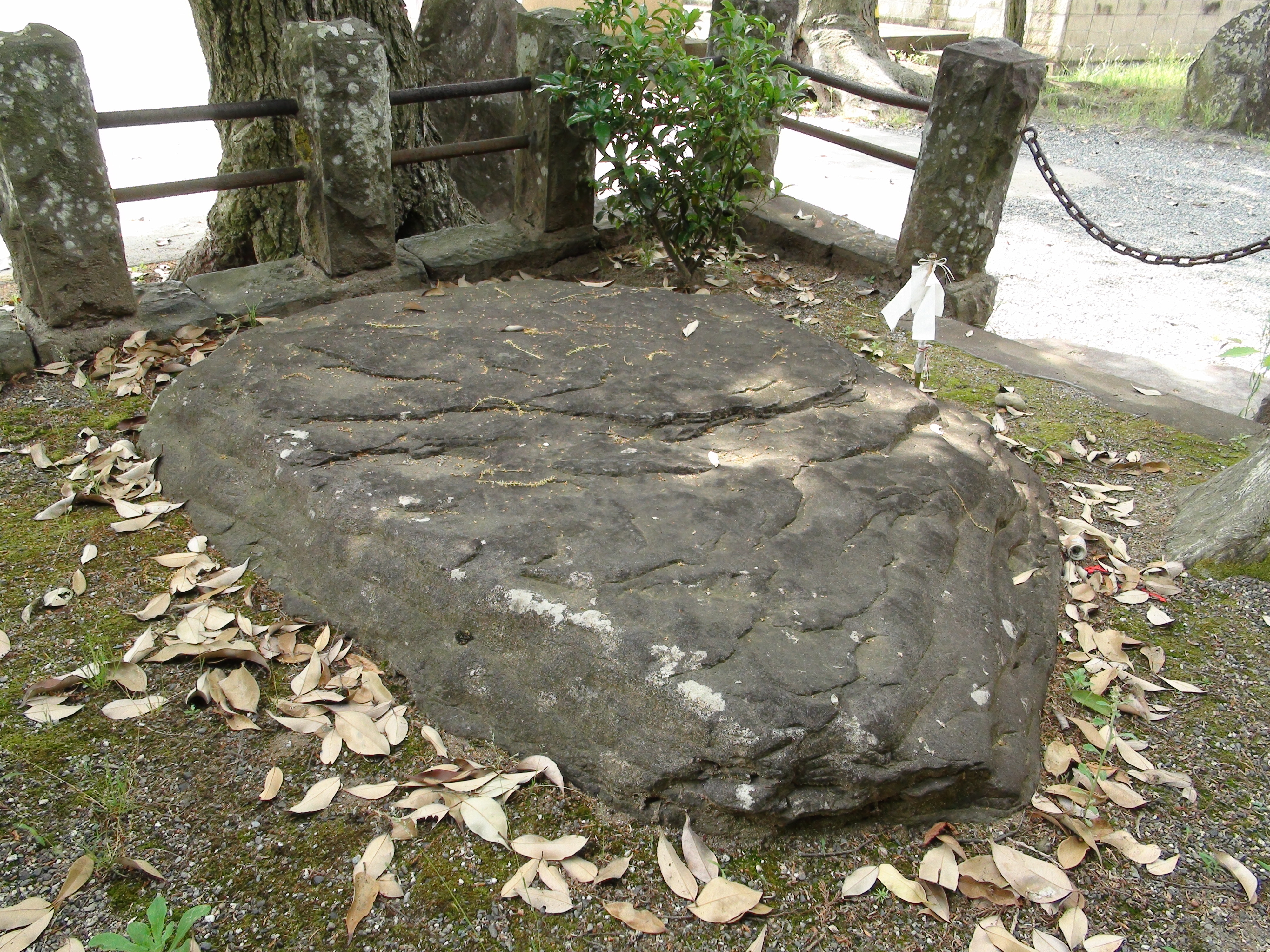 The stone of the mark of the border of the county